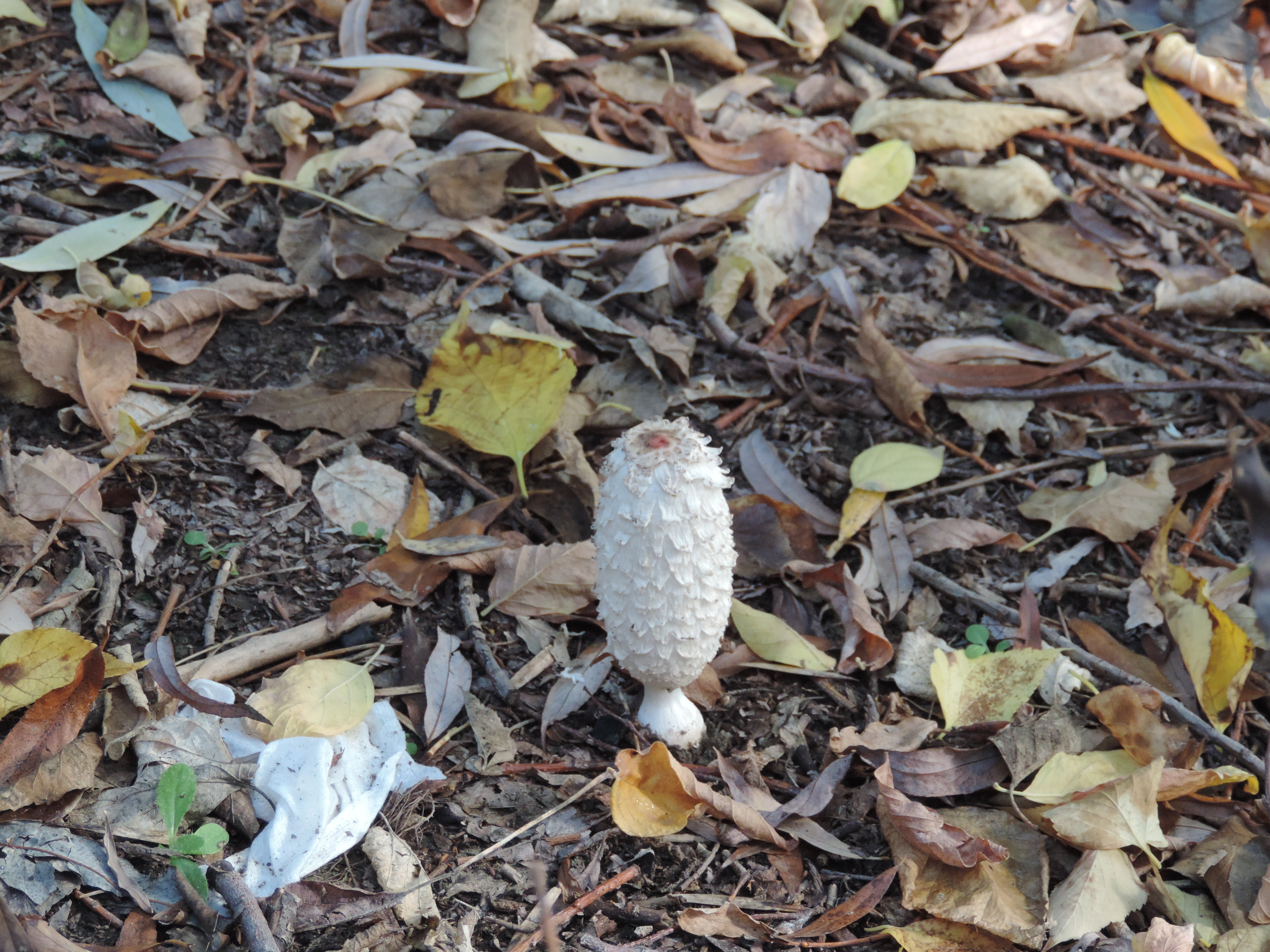 Coprinus comatus